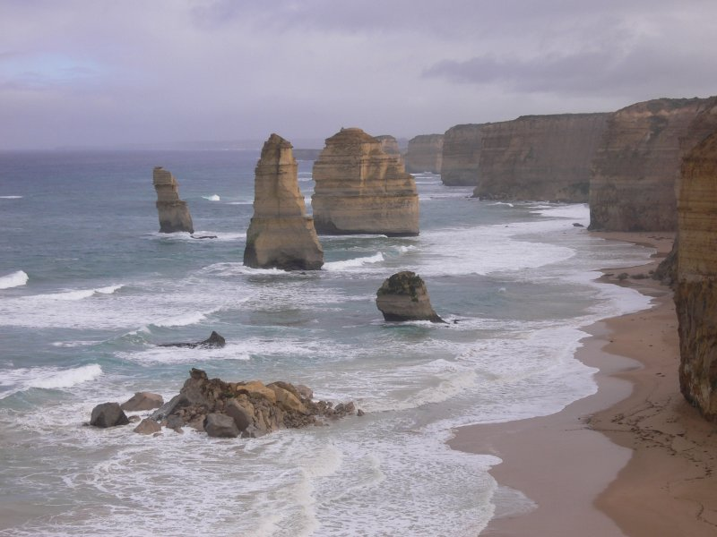 The Twelve Apostles, Australia. – This picture was taken about one hour after the stack had crashed on July 3, 2005.